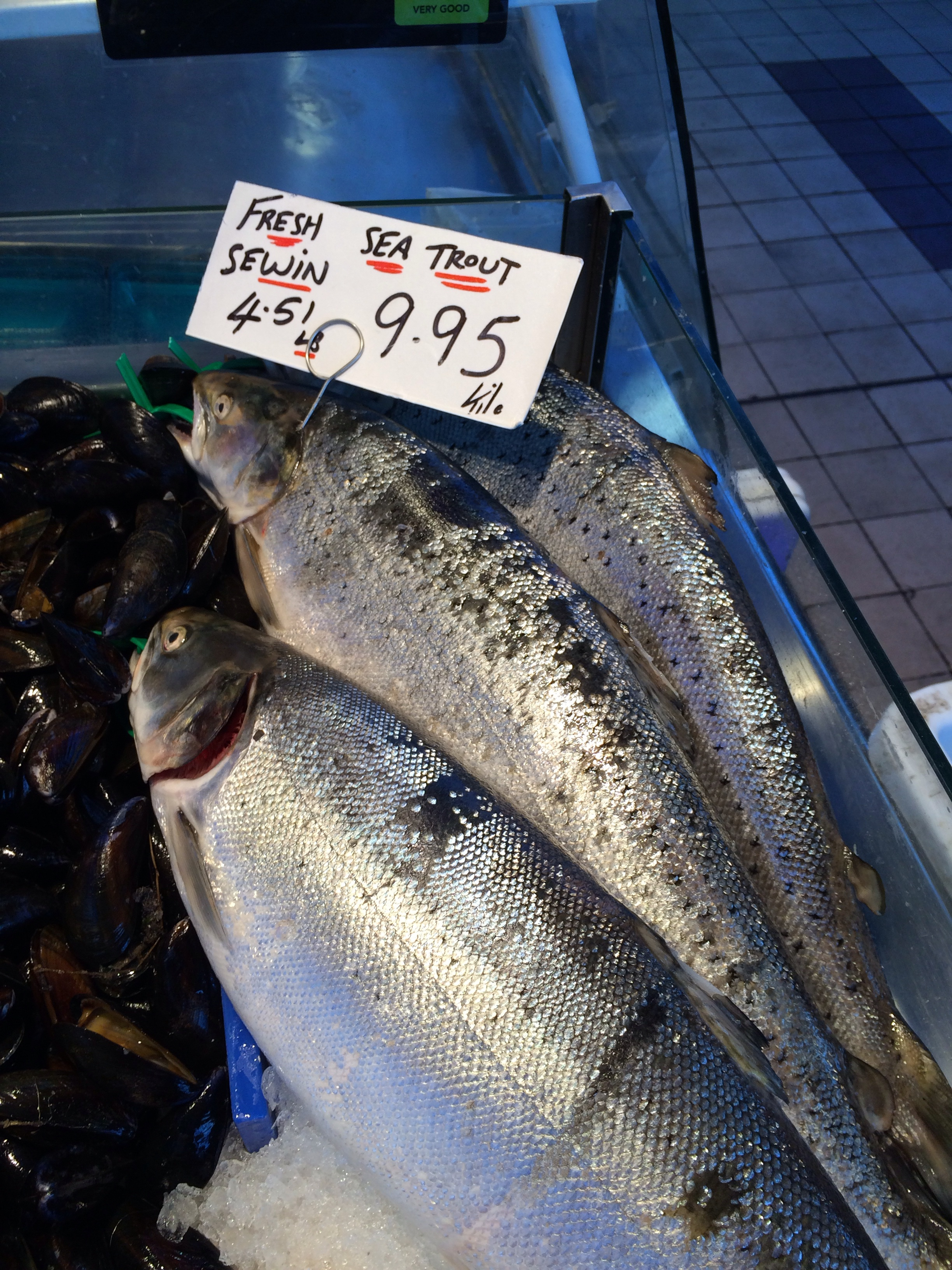 Sea trout, known as Sewin in Wales, for sale at Swansea Market